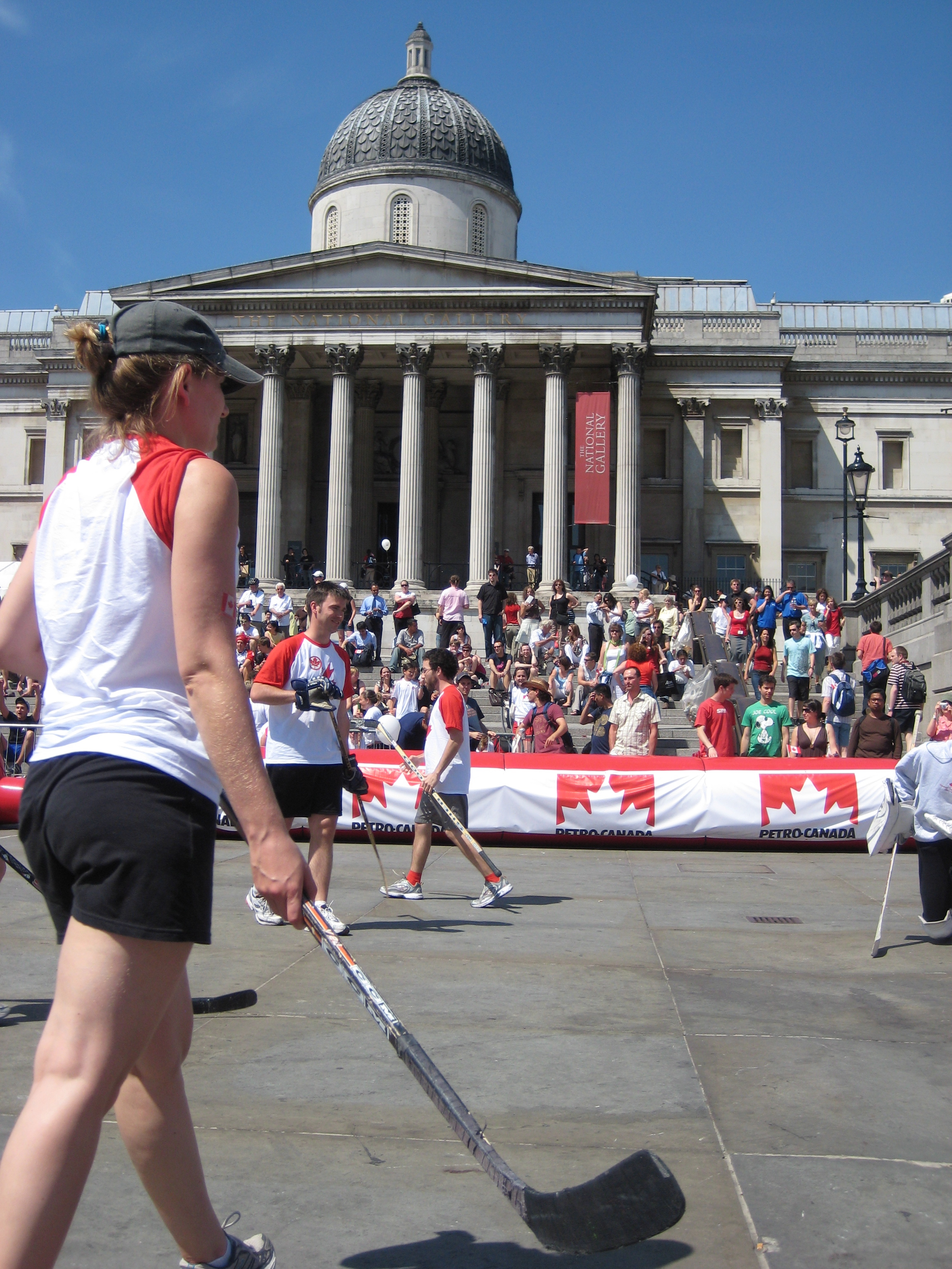 Street hockey in front of the National Gallery, Trafalgar Square, in celebration of Canada Day. London, U.K.